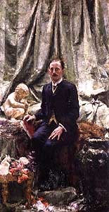 Portrait of Hugh Lane (1875-1915)